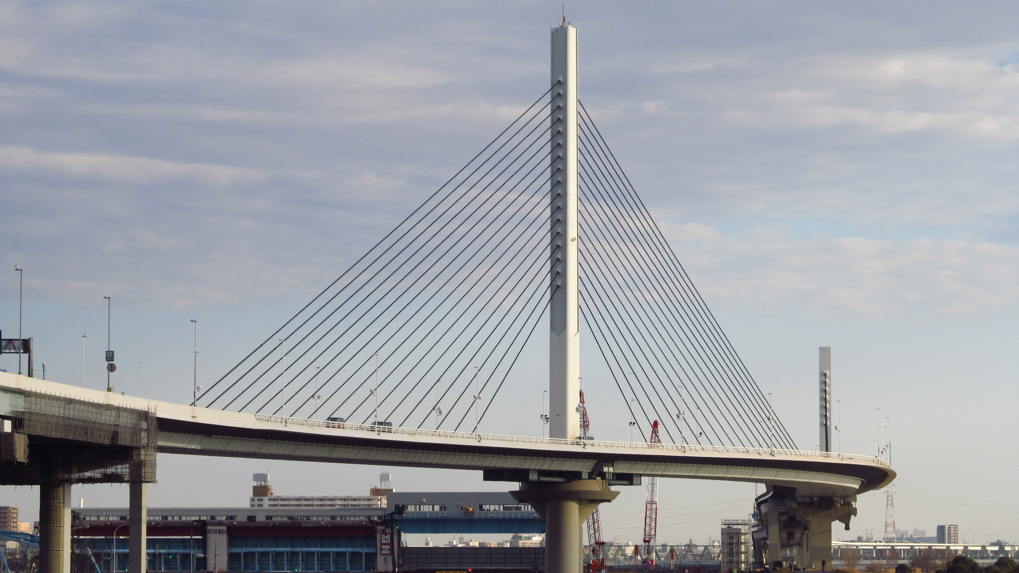 Katsushika Harp Bridge